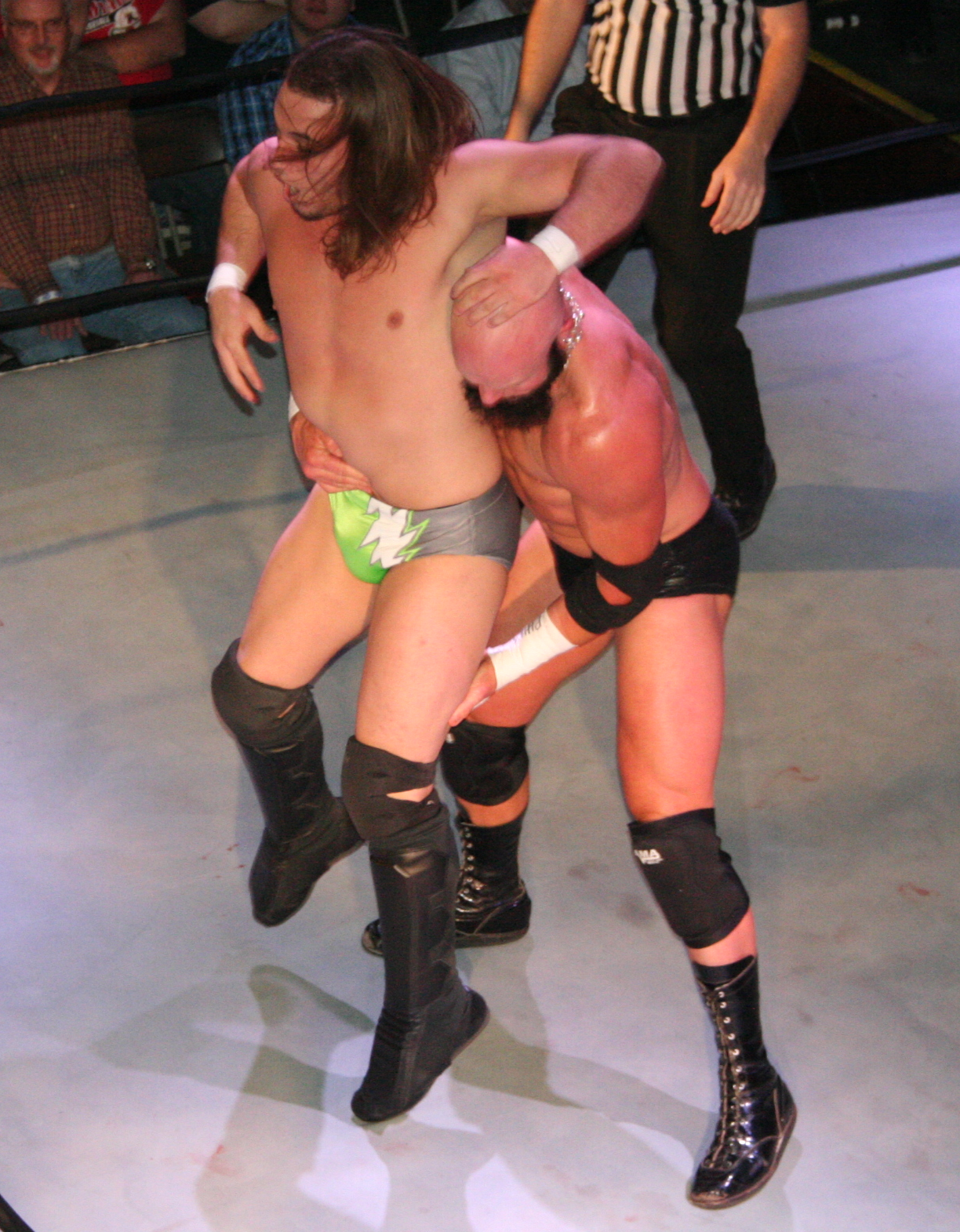 Professional wrestler Lodi delivering an atomic drop to Andrew Everett in 2013